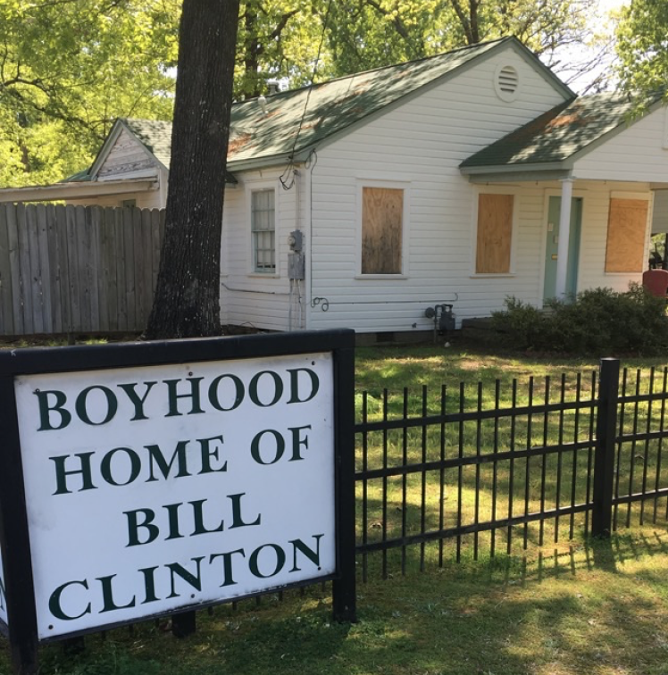 Boyhood Home of Bill Clinton, Hope, Arkansas